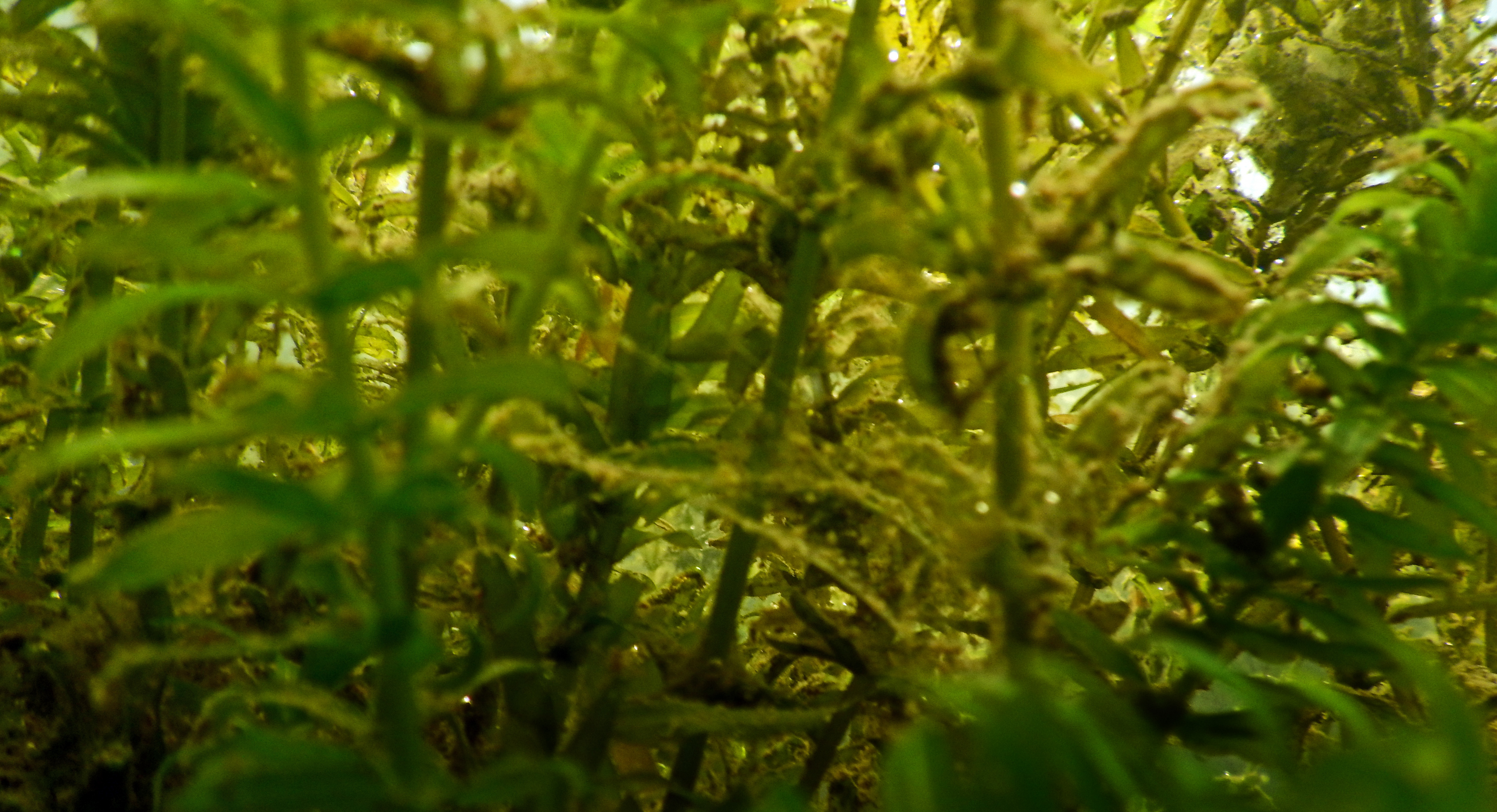 biological invasion of the fishing pond of Saint-Nolf in Morbihan (near Condat stream, near a football field and near a railroad (access of the pont by the Departmental road 135) By far, this plant evokes waterweed Elodea, but it's Egeria densa.